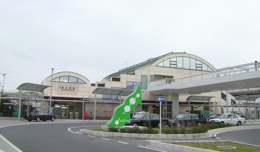 Shin-Misato Station on the Musashino Line